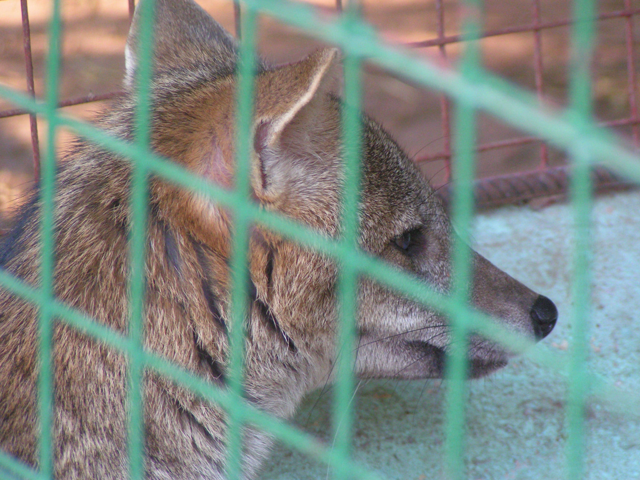 Crab-eating fox (Cerdocyon thous)